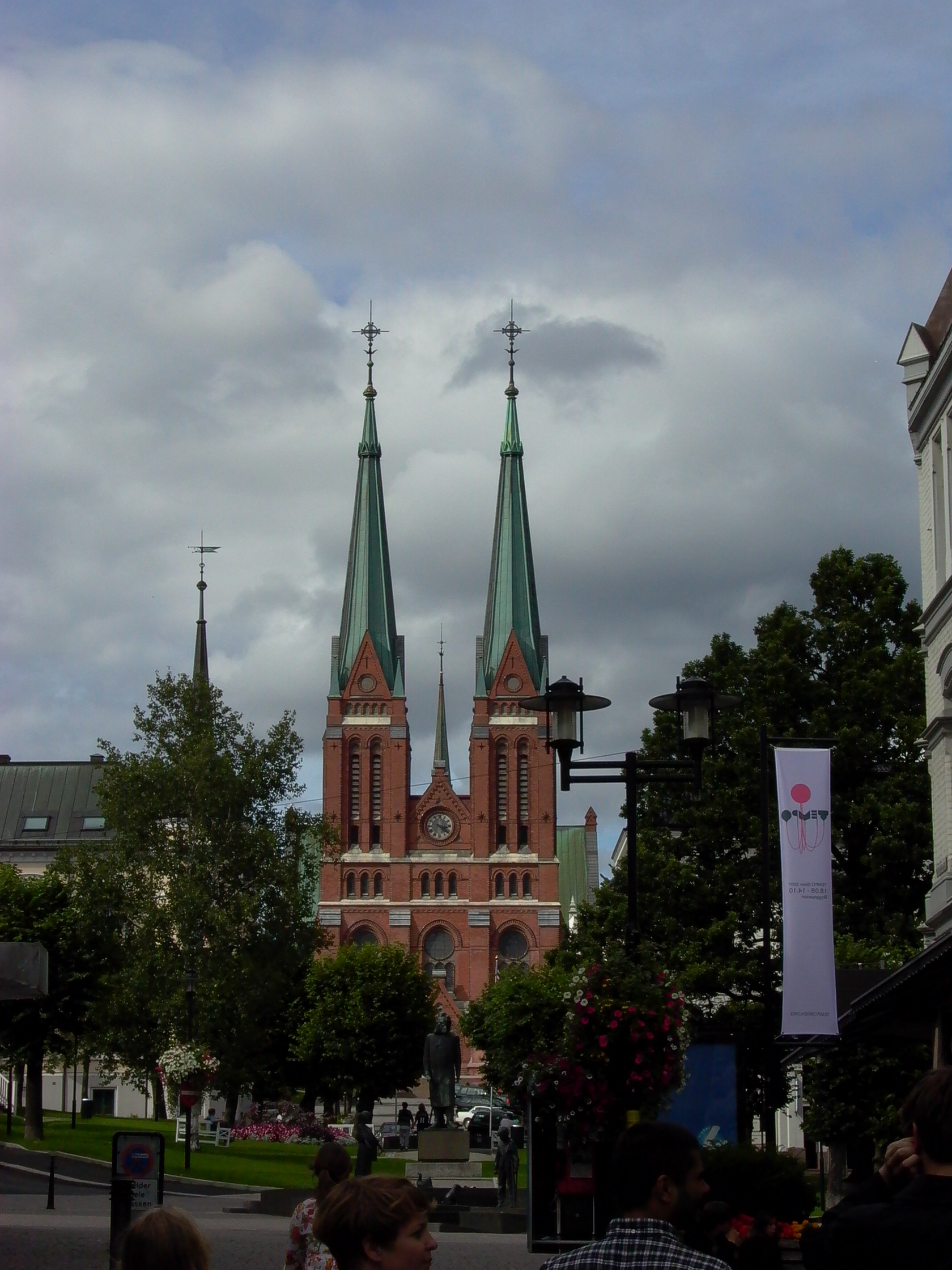 The cathedral in Skien, Norway